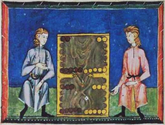 The game of todas tablas from the Libro de los juegos. Folio 78 recto.